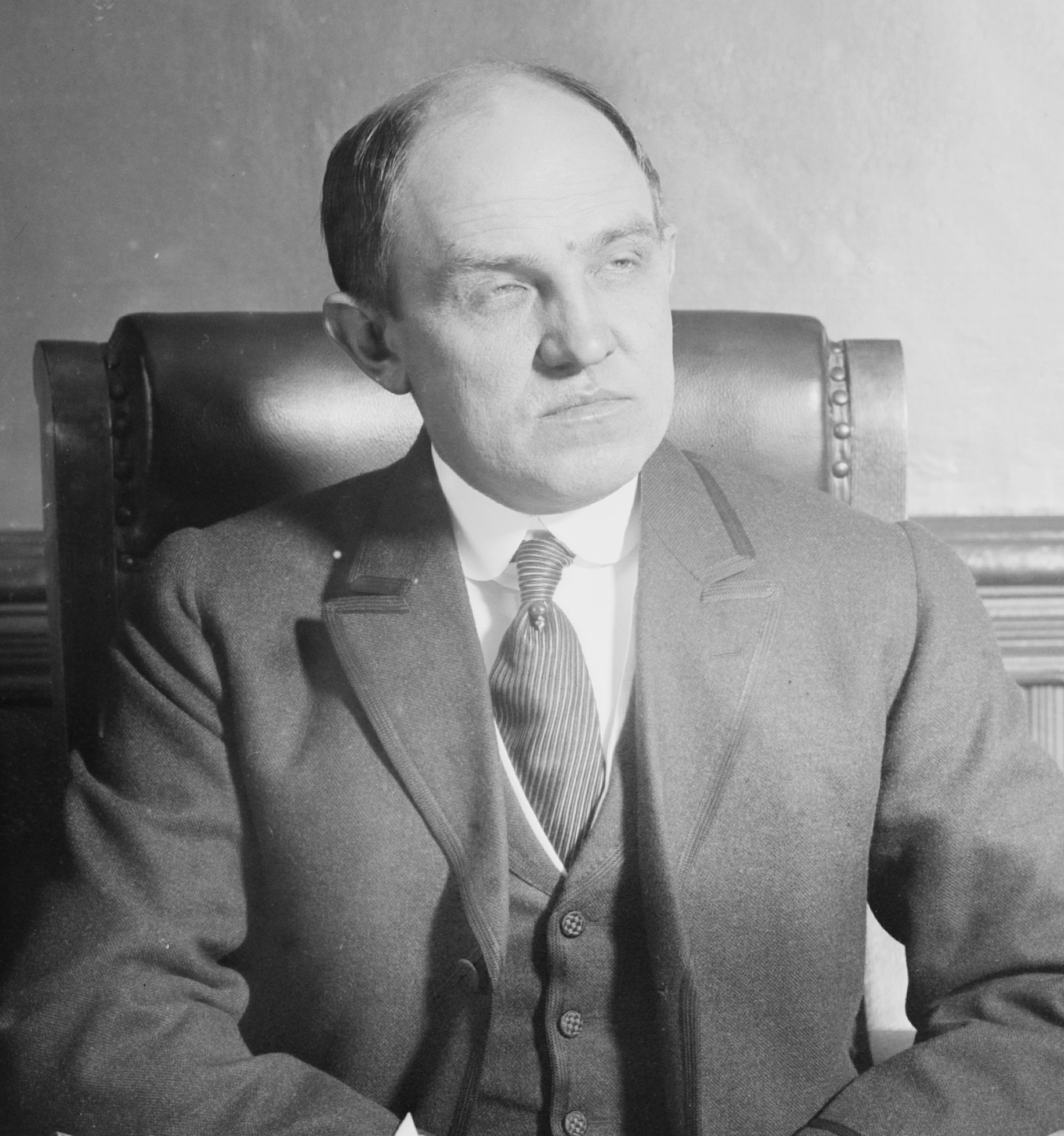 Robert Edward Adamson in 1914